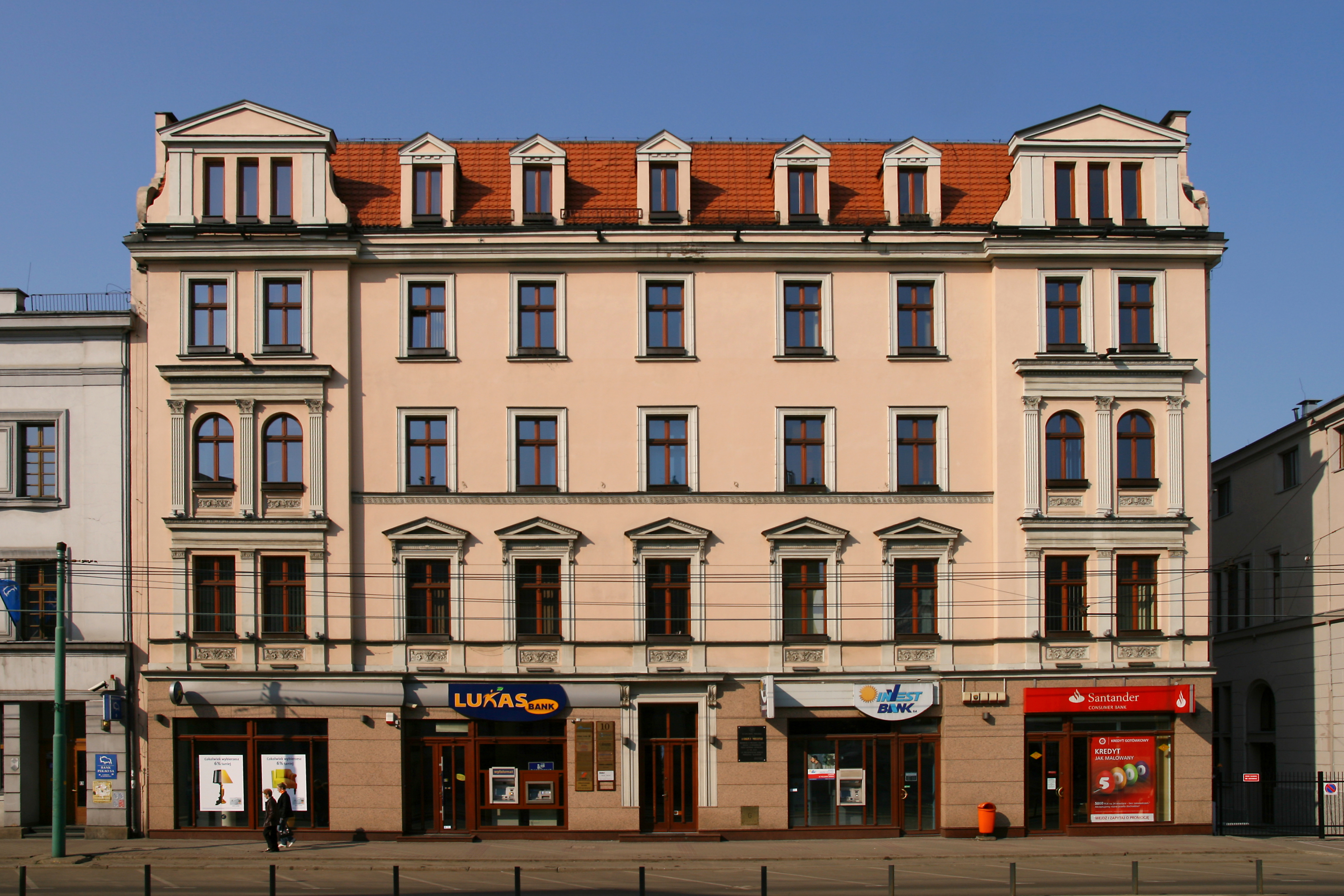 Tenement house on the Warszawska Street in Katowice (Poland).